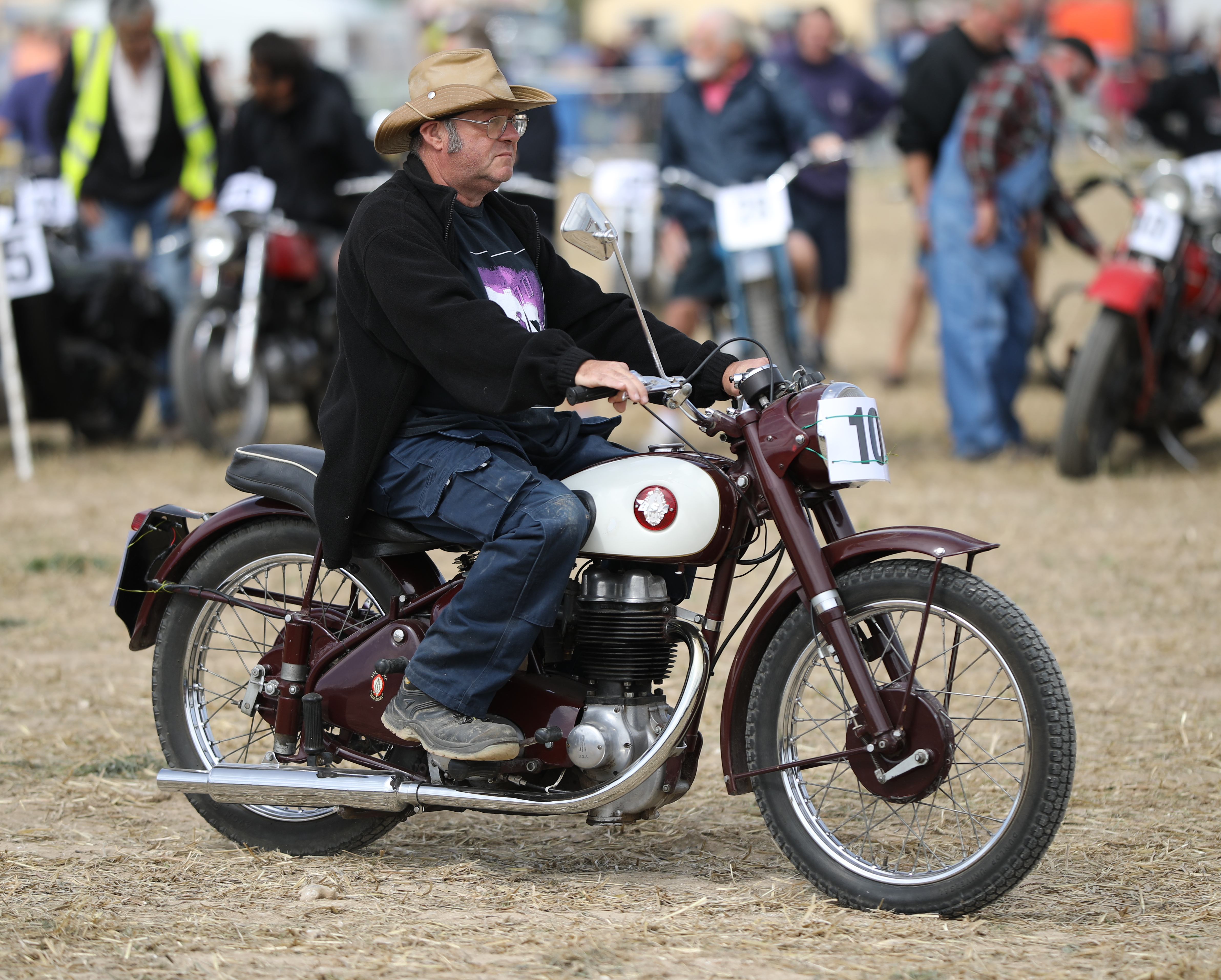 Photo of a BSA C11G motobike from 1955. 2018 GDSF program number 10